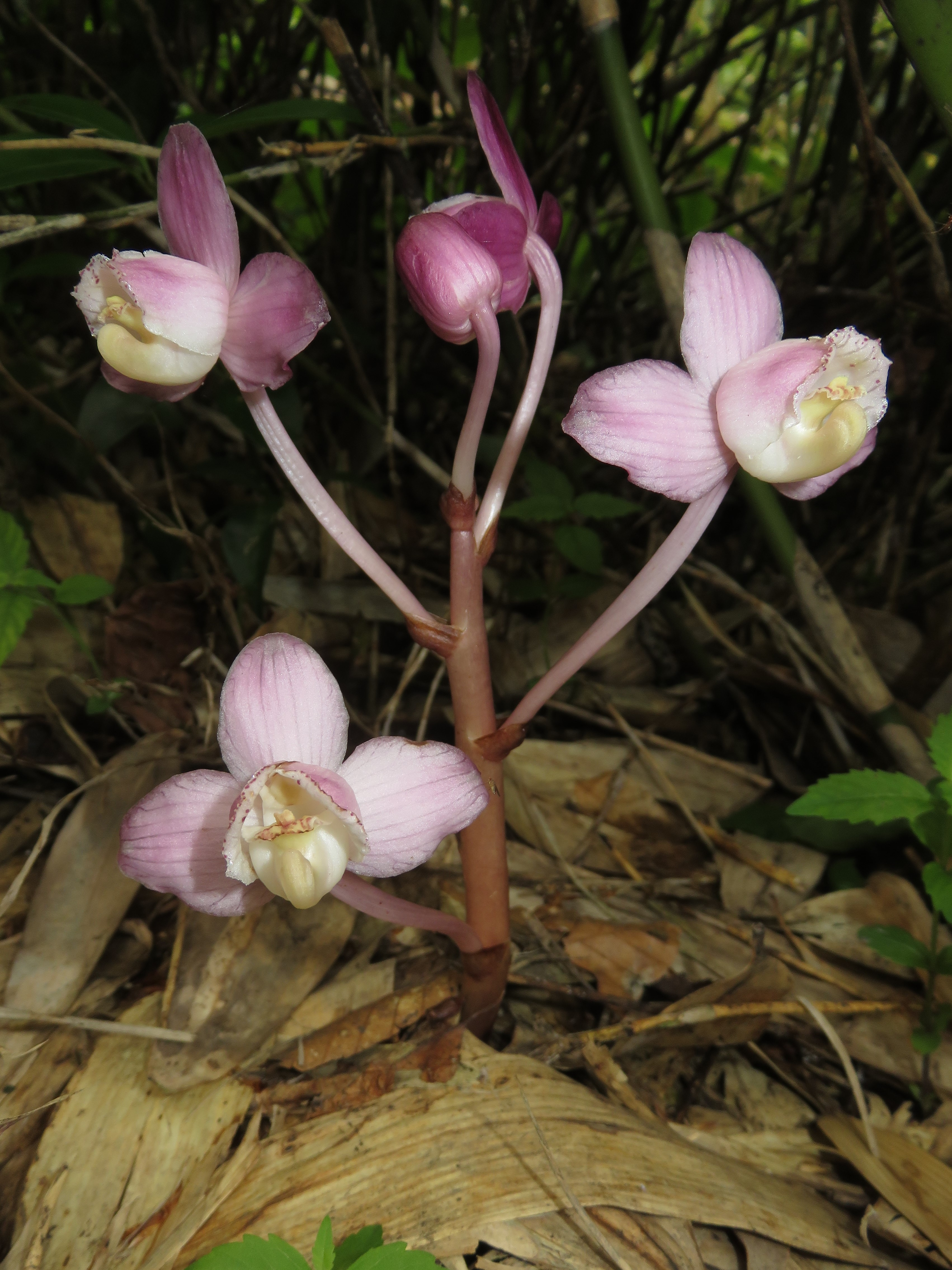 Yoania japonica, Aizu area, Fukushima pref., Japan